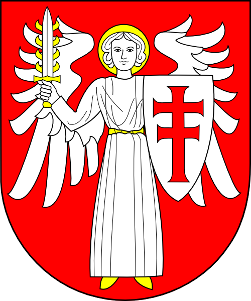 Coat of arms (shield only) of Ján Vojtaššák, bishop of Spiš, Slovakia (1920 - 1965).